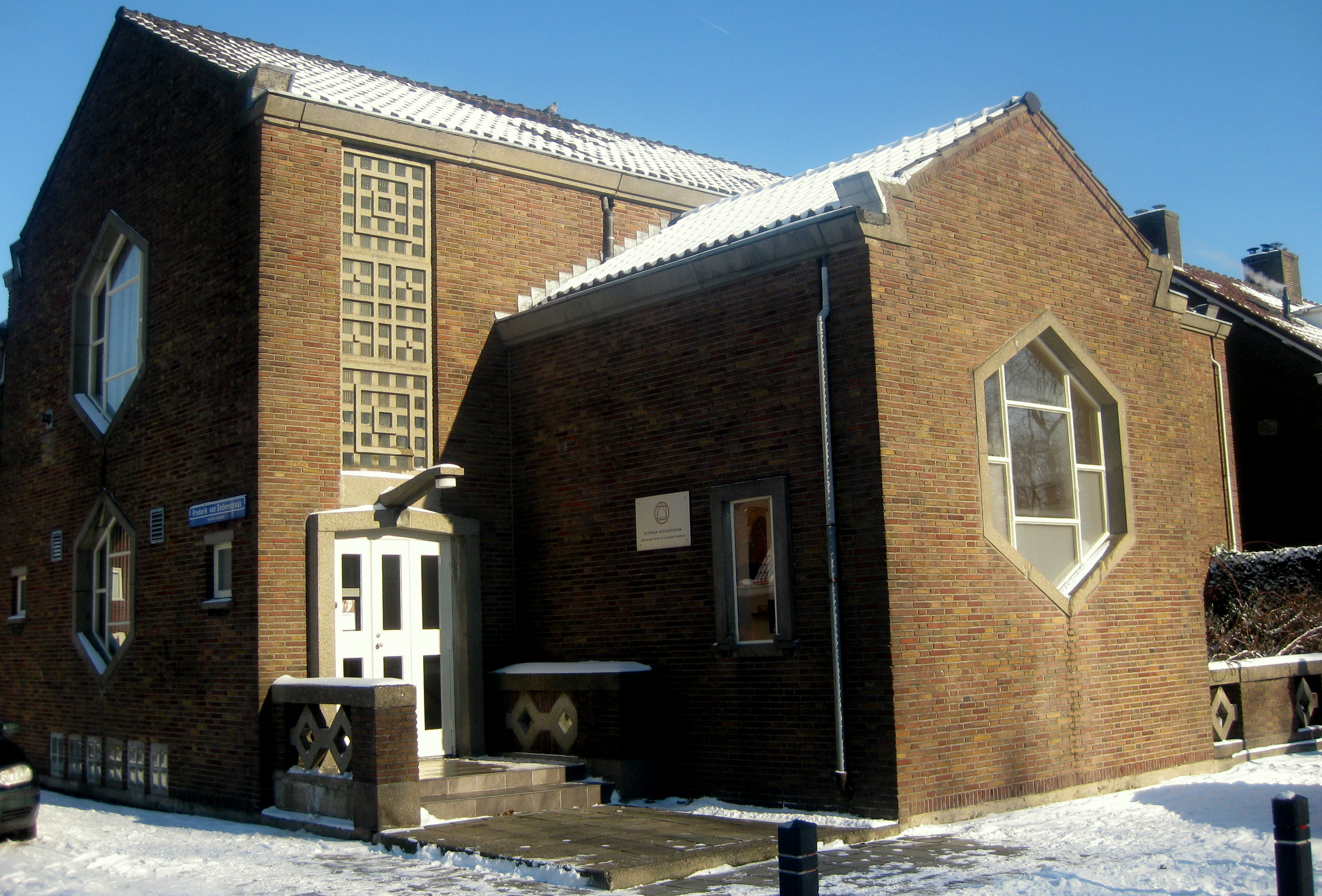 Lectorium Rosicrucianum temple in Utrecht, Netherlands